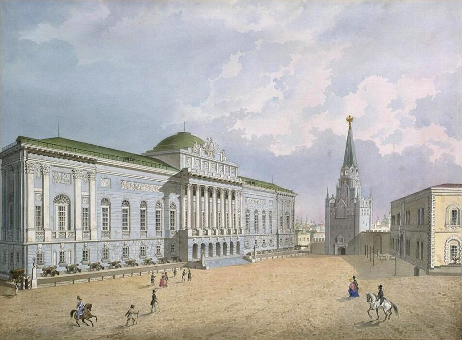 The old building of Kremlin Armoury Date1852MediumwatercolorSource/Photographer (Reusing this file)Public domain